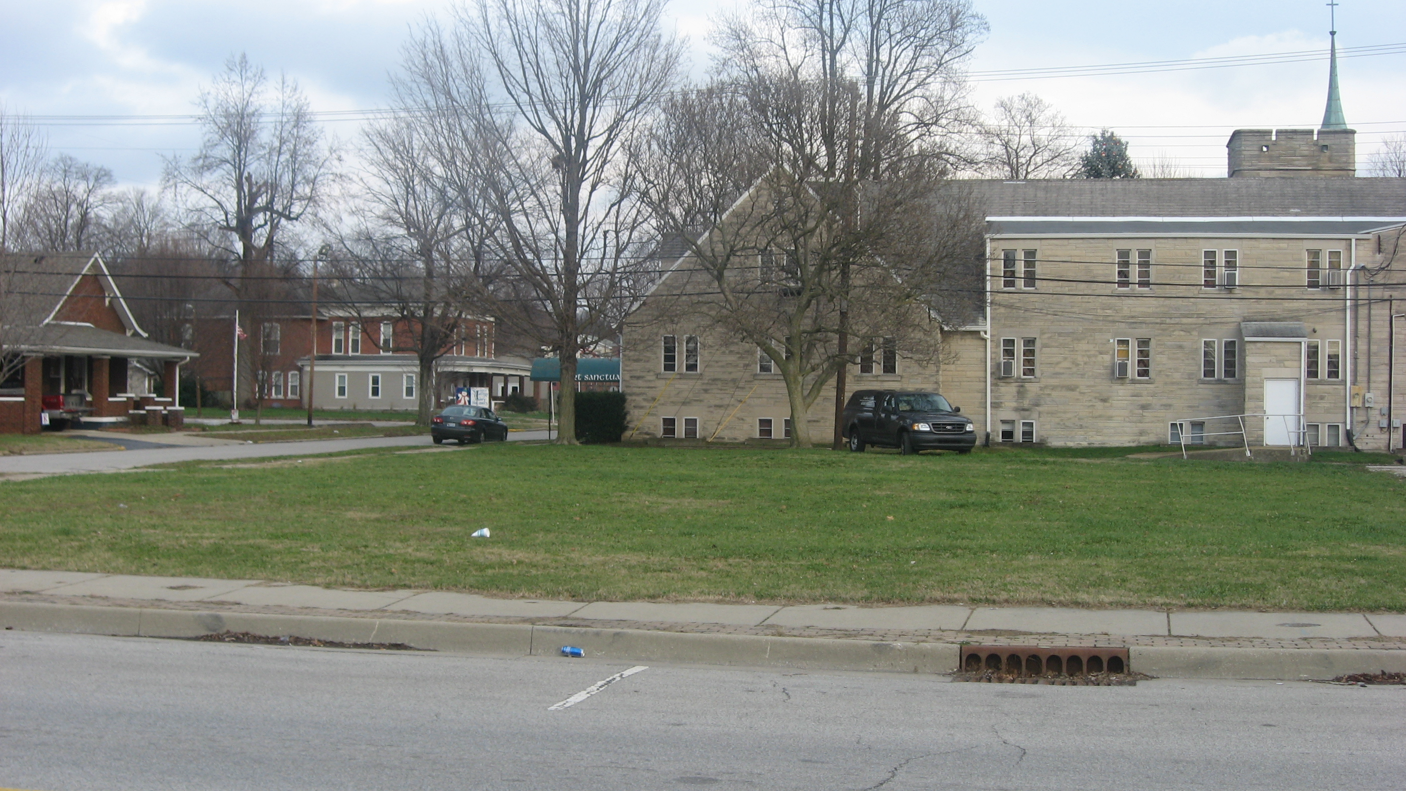 Site of the Hite-Finney House, which was formerly located at 183 N. Jefferson Street in Martinsville, Indiana, United States. Built in 1855, it was listed on the National Register of Historic Places but was removed in 2012, after its destruction.